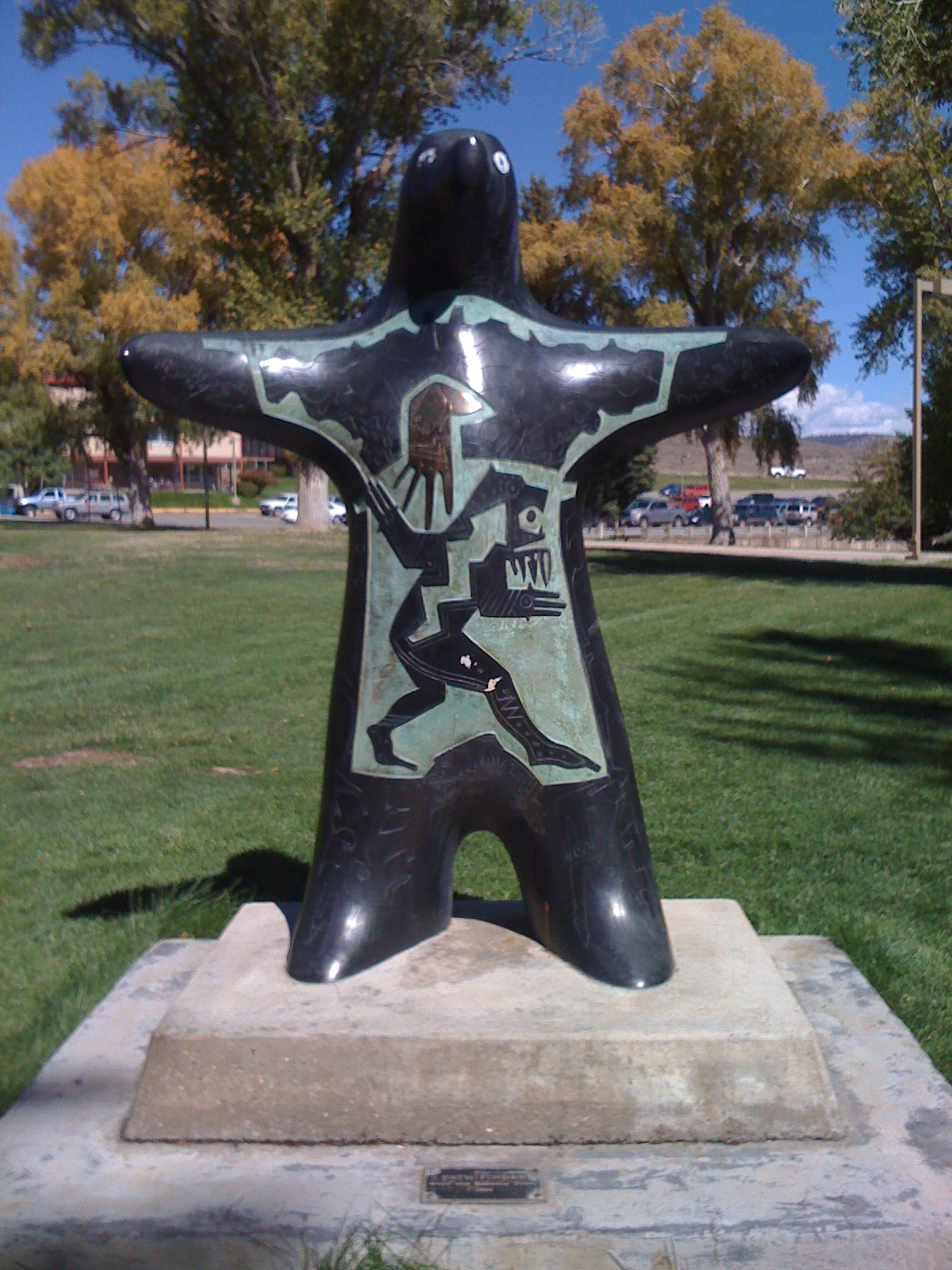 Photo of six foot bronze grizzly bear by Gene and Rebecca Tobey commissioned by Western State Colorado University